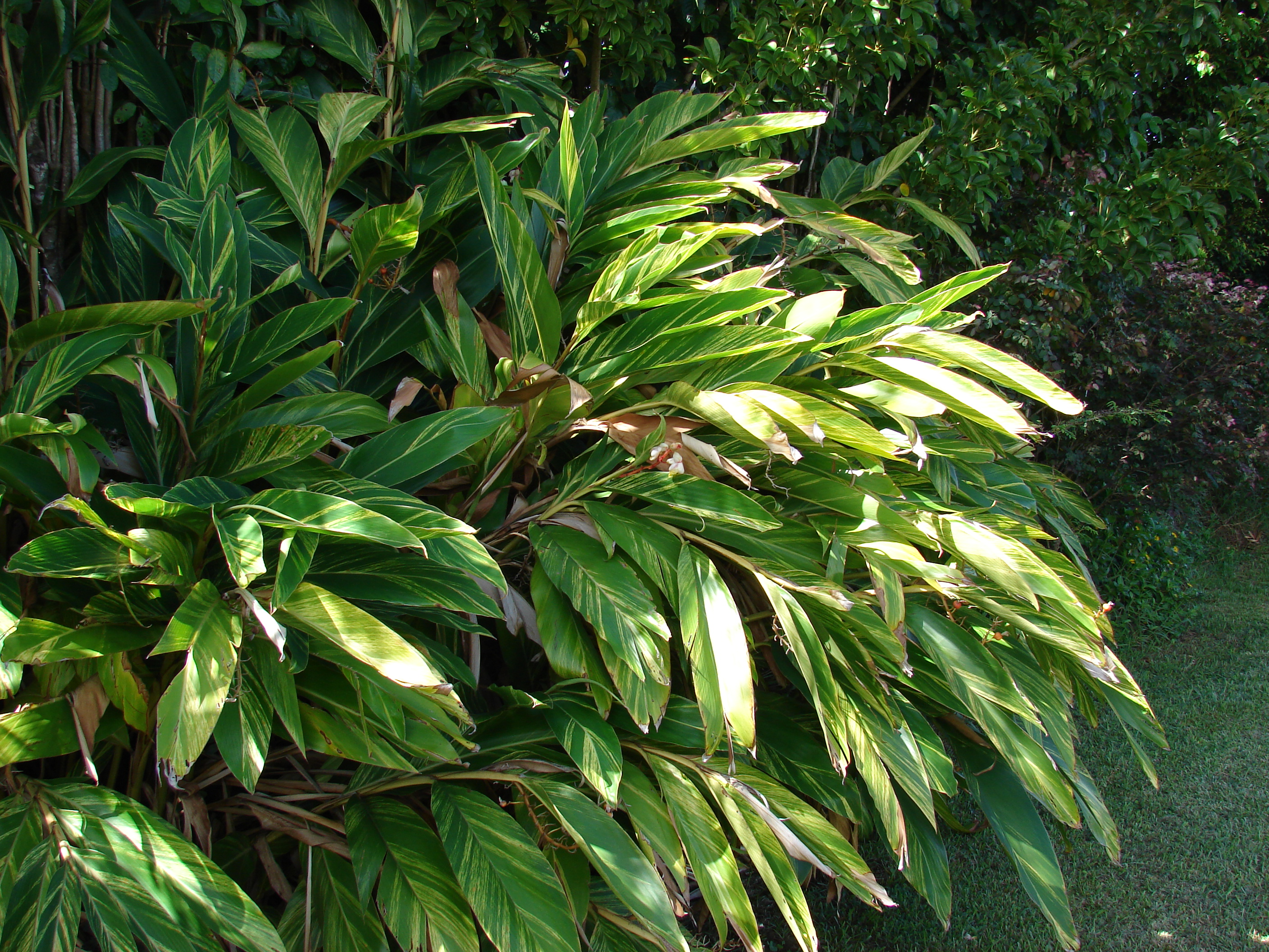 Alpinia zerumbet (habit variegated form). Location: Maui, Kokomo Rd Haiku